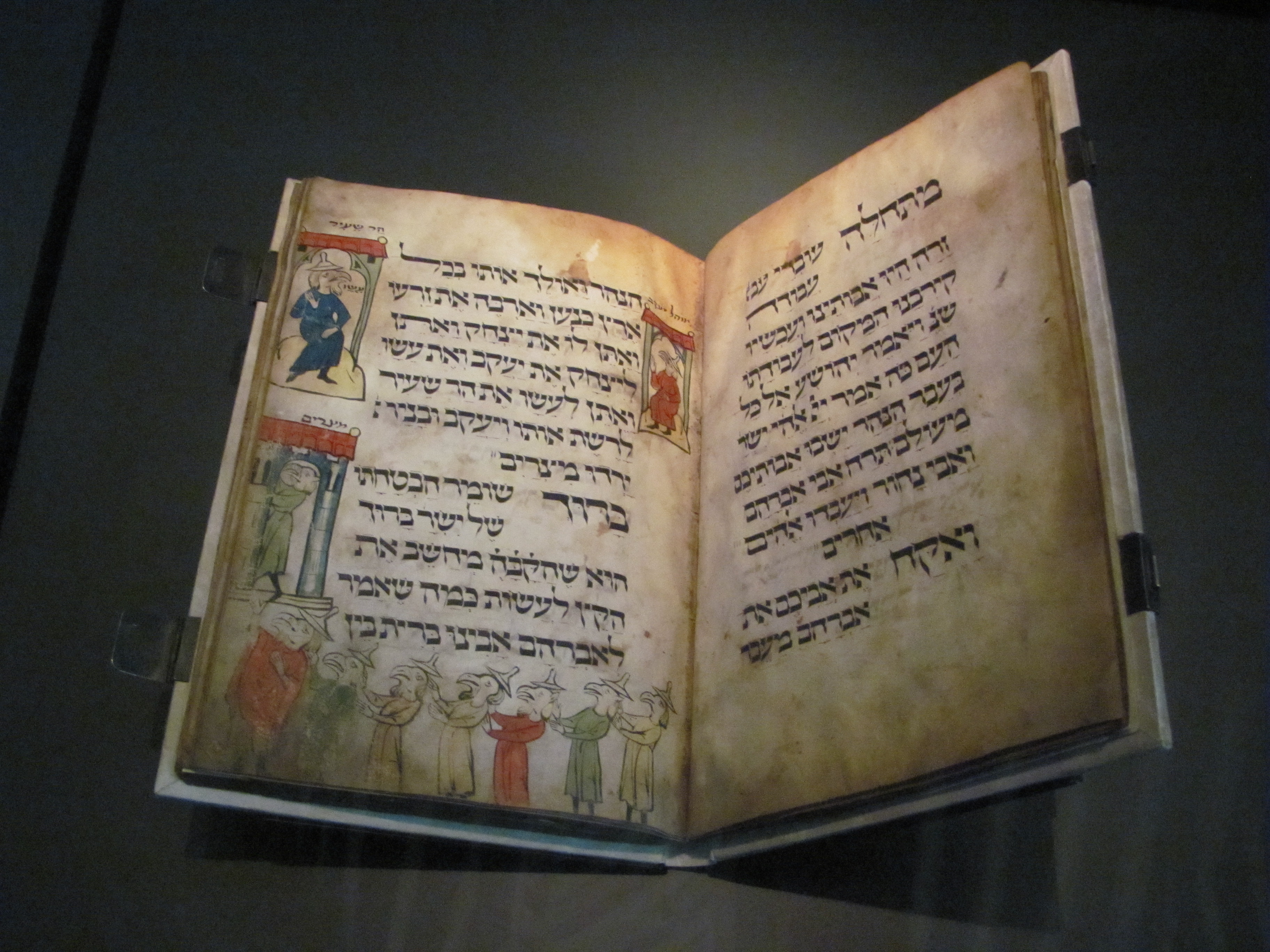 Original Birds' Head Haggadah (c. 1300) on display at the Israel Museum, Jerusalem, Israel.